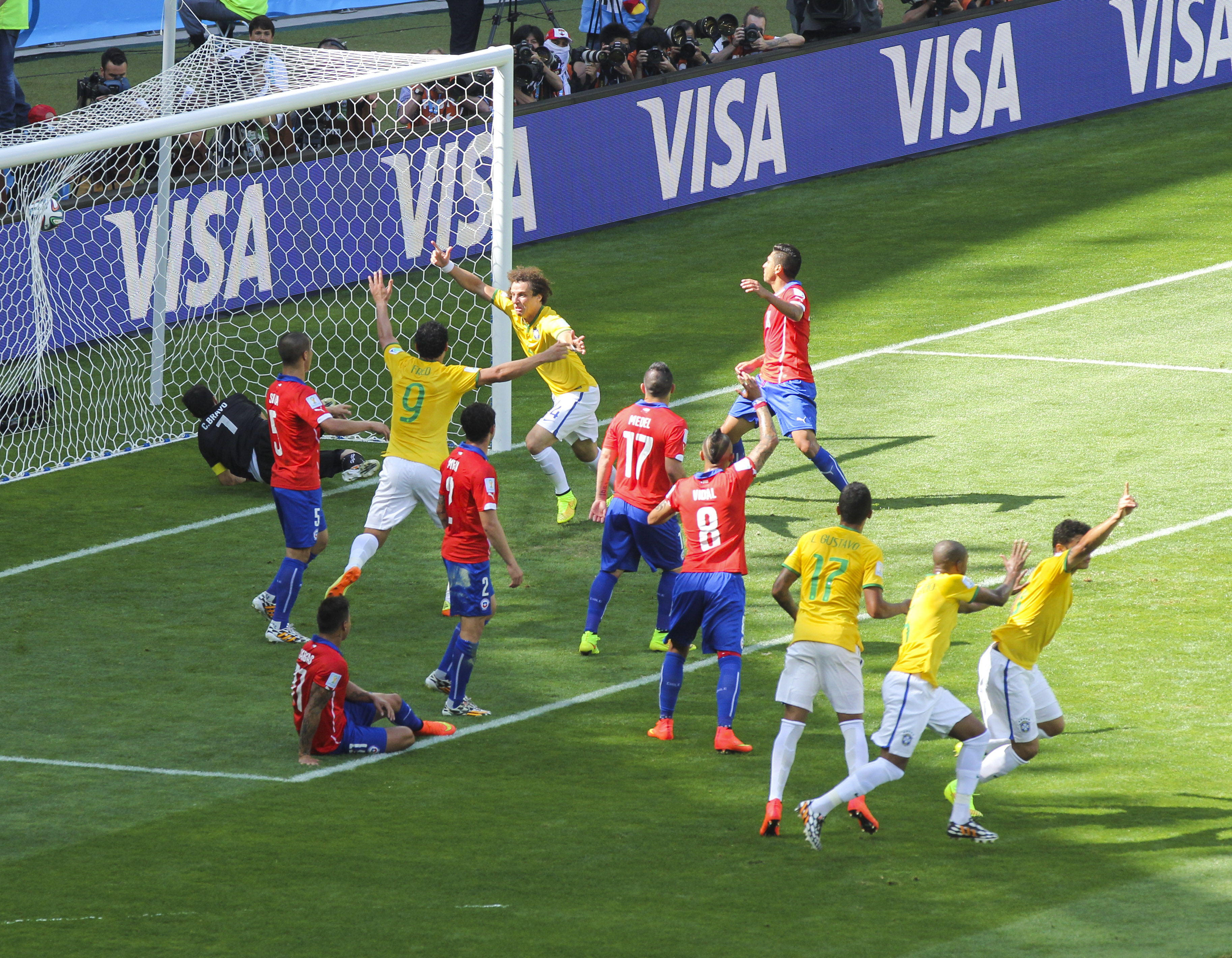 Brazil vs. Chile in Mineirão